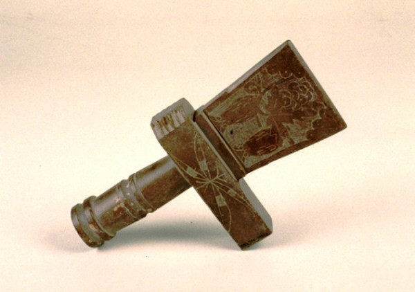 pipe head made from catlinite. This head of a ceremonial pipe combines calumet with tomahawk.